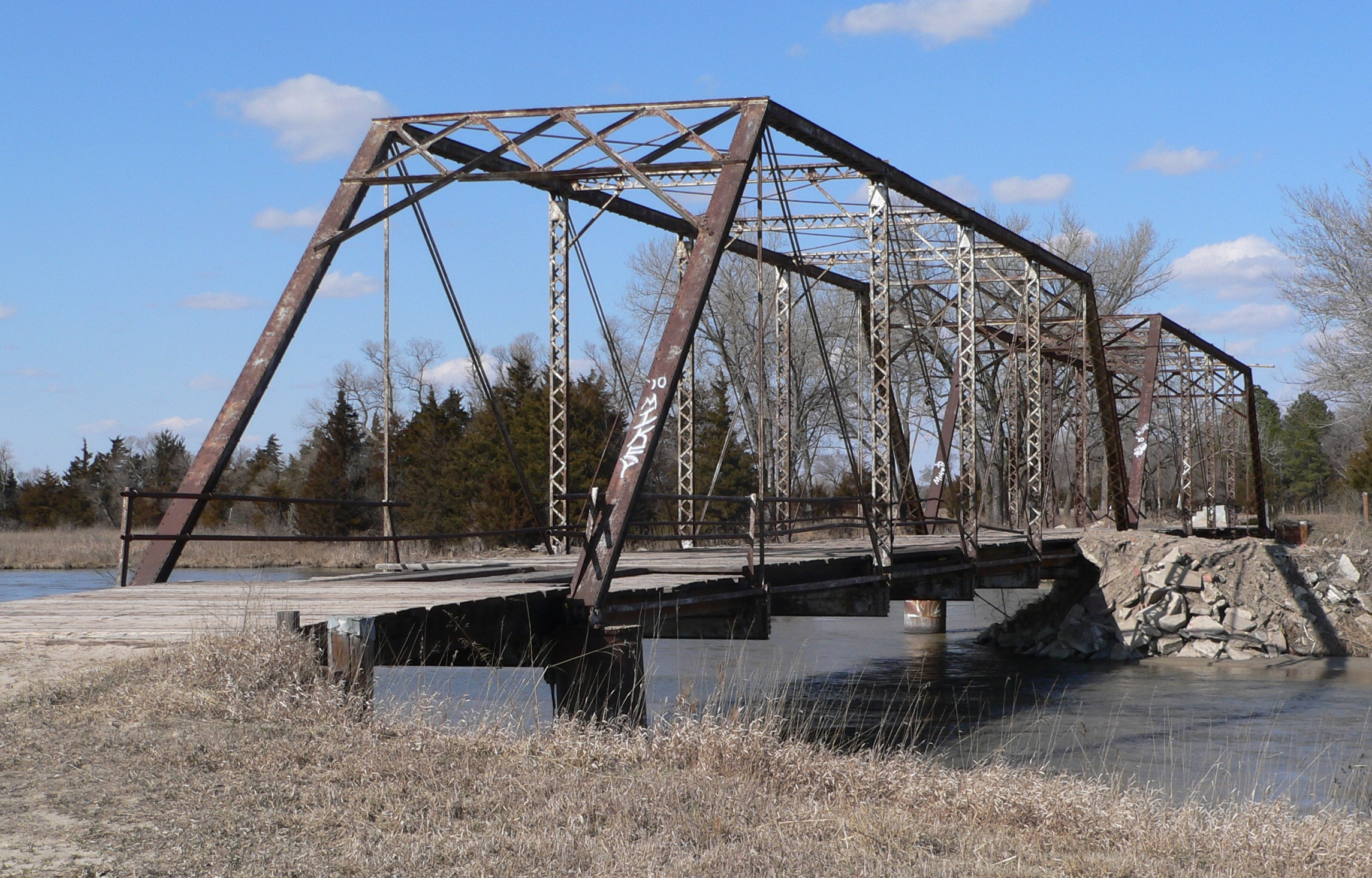 Sargent Bridge across the Middle Loup River south of Sargent, Nebraska; seen from the southeast. The Pratt through truss bridge was built in 1908, and is listed in the National Register of Historic Places. It is no longer used for vehicle traffic: a new bridge located downstream from the old one now carries U.S. Highway 183 across the river. The bridge is at the head of a small island in midstream; in the picture, the near truss crosses the channel south of the island, while the far truss crosses the channel to the north.